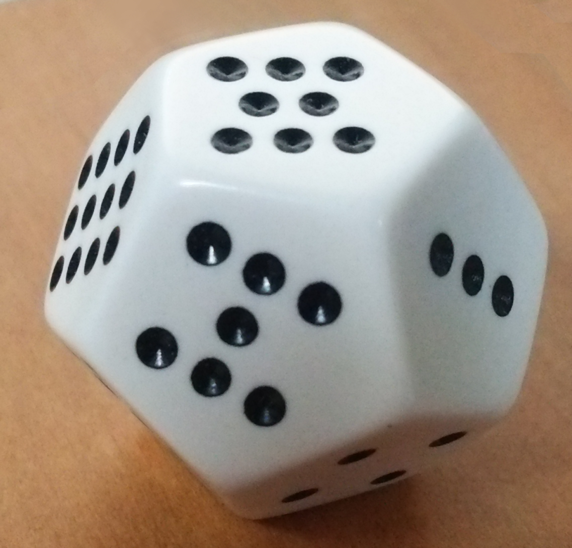 regular dodecahedron dice